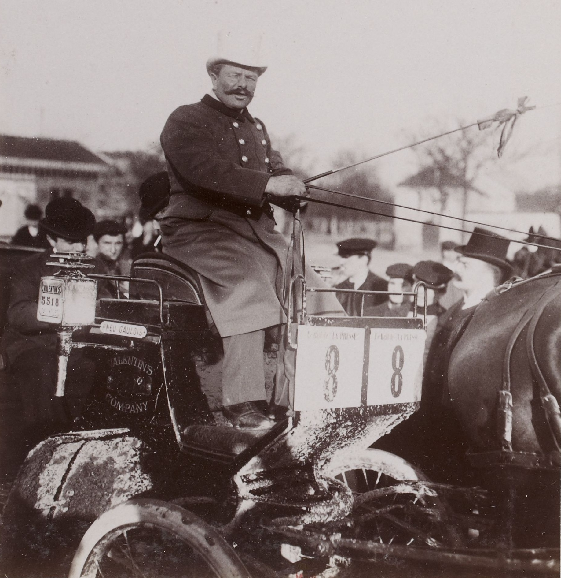 [Collection Jules Beau. Photographie sportive] : T. 28. Année 1904 / Jules Beau : F. 35. [Raid de La Presse, Course des fiacres, Courbevoie, 13 novembre 1904]